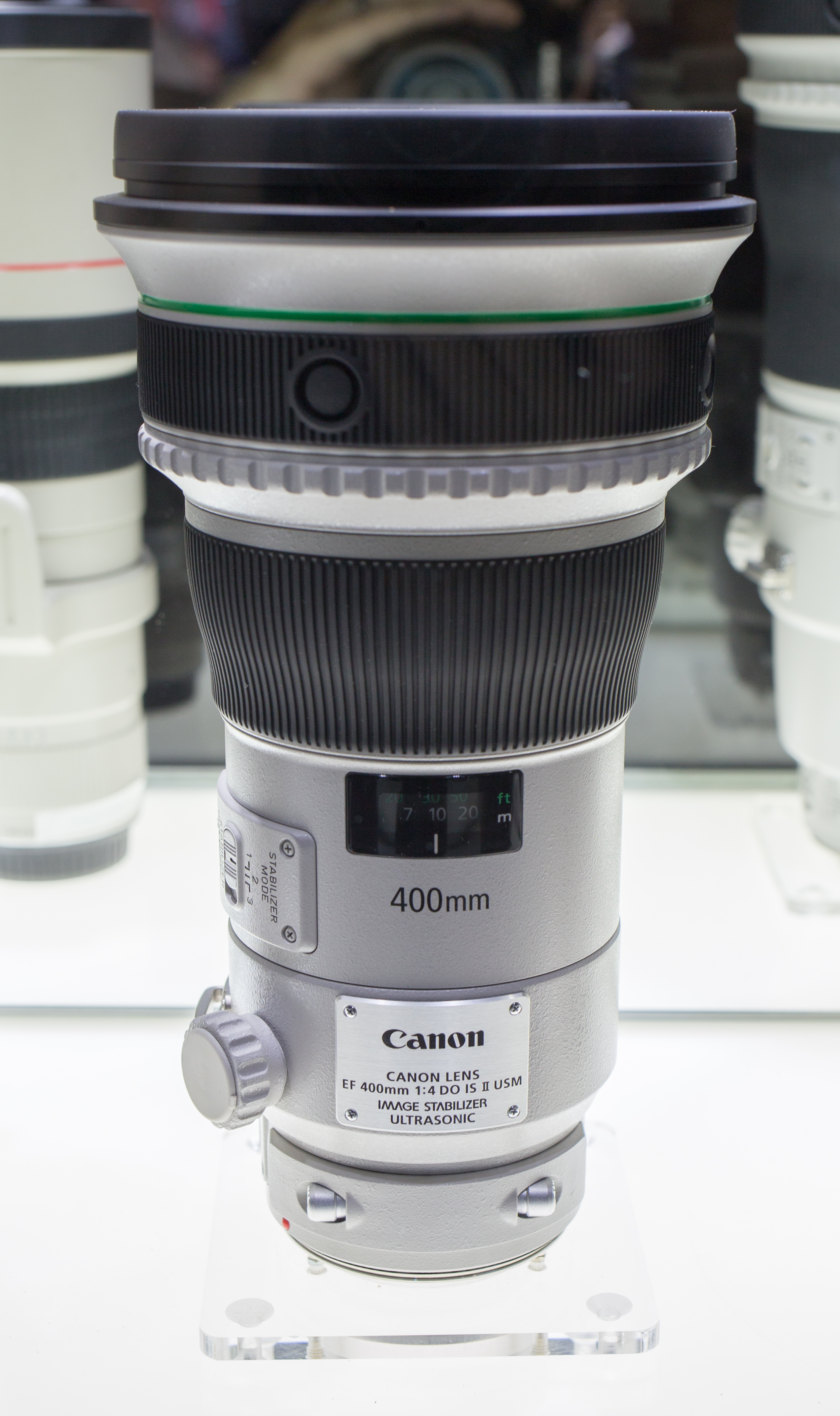 Image of the Canon EF 400mm f/4 DO IS II USM lens